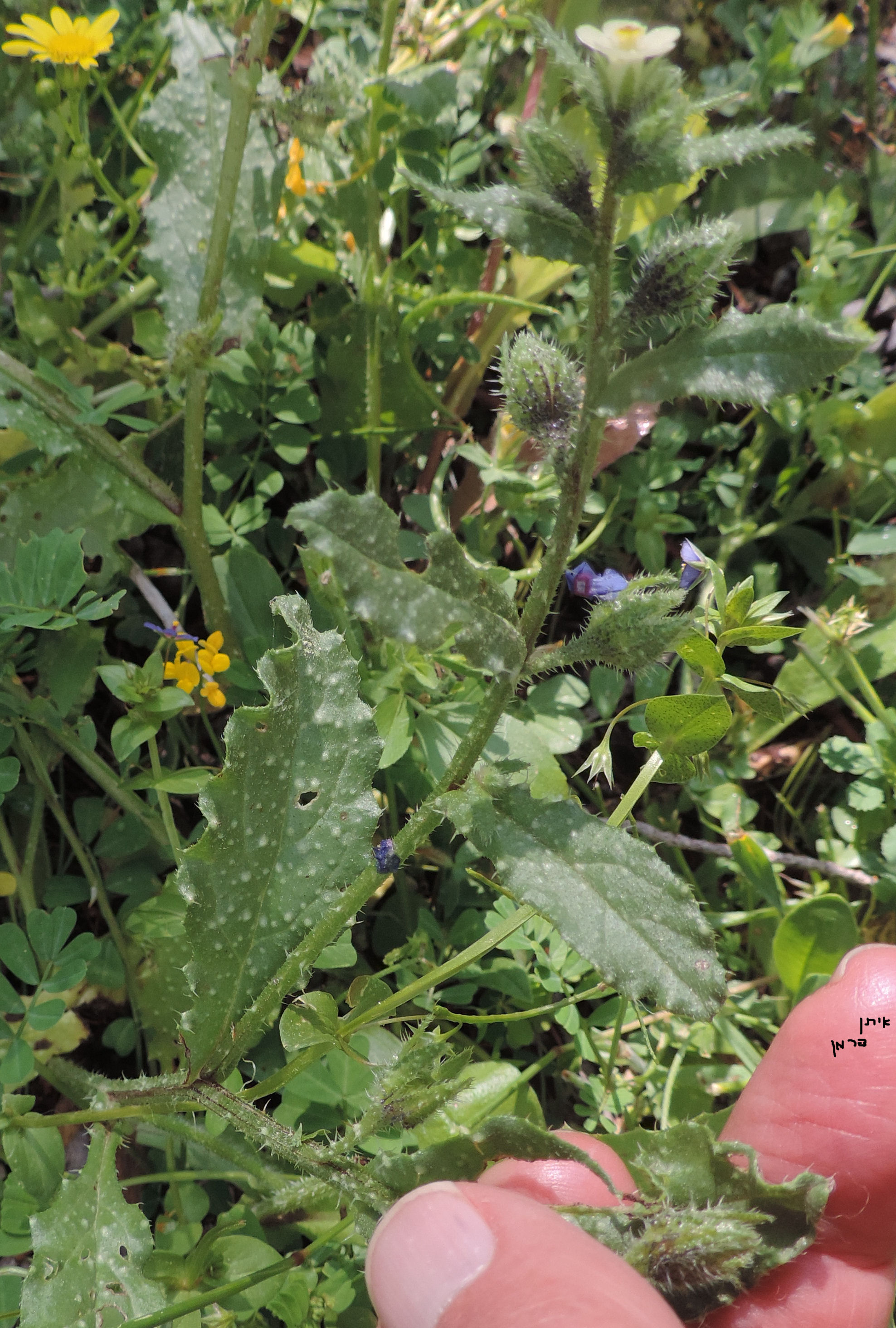 Anchusa aegyptiaca